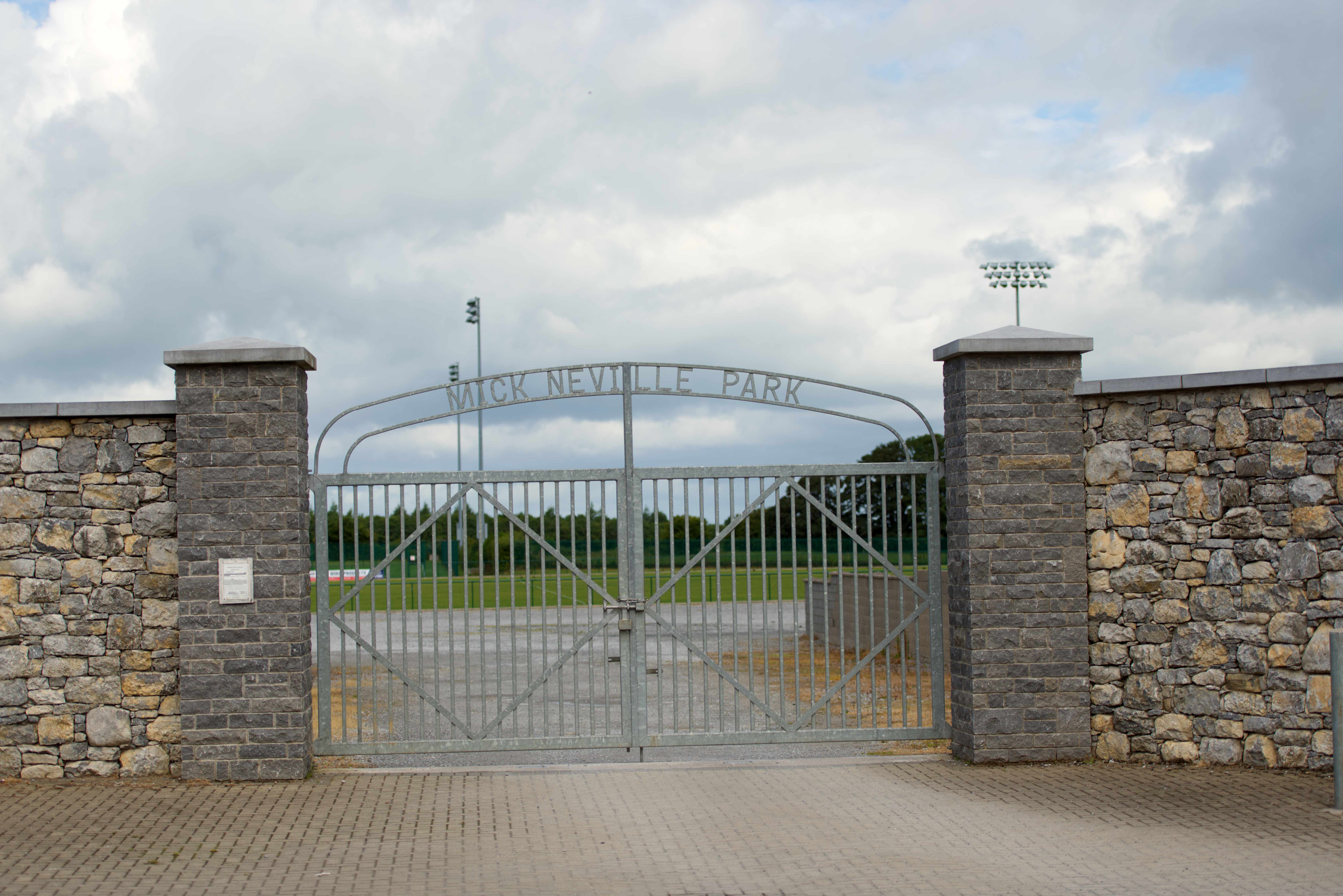 Photo of the gates of Mick Neville Park. GAA grounds in Rathkeale